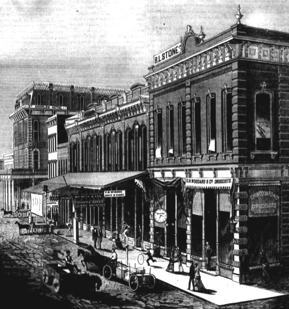 Front street in Portland, Oregon looking south from Alder